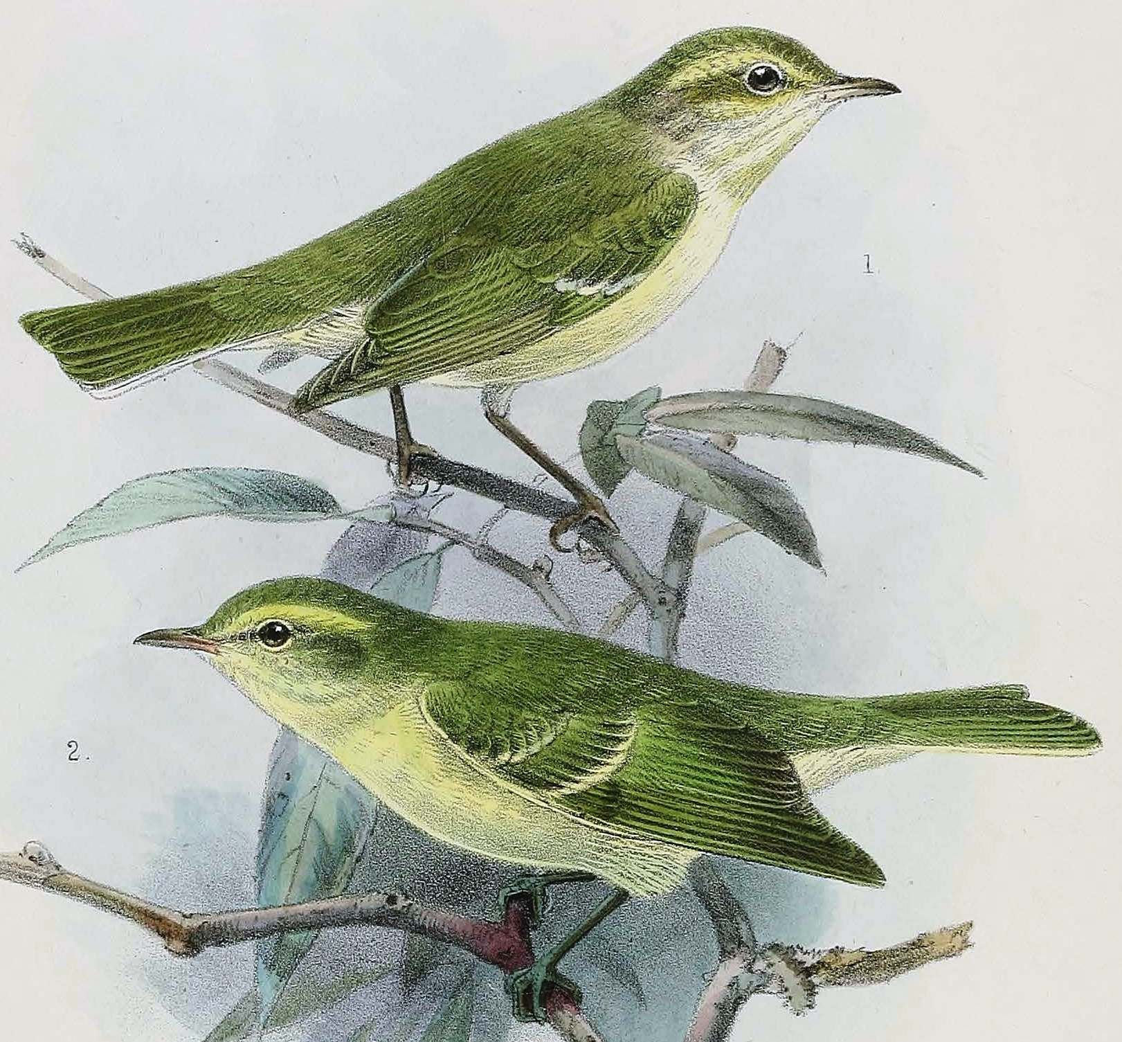 Phylloscopus trochiloides viridanus (1) and Phylloscopus nitidus (2)